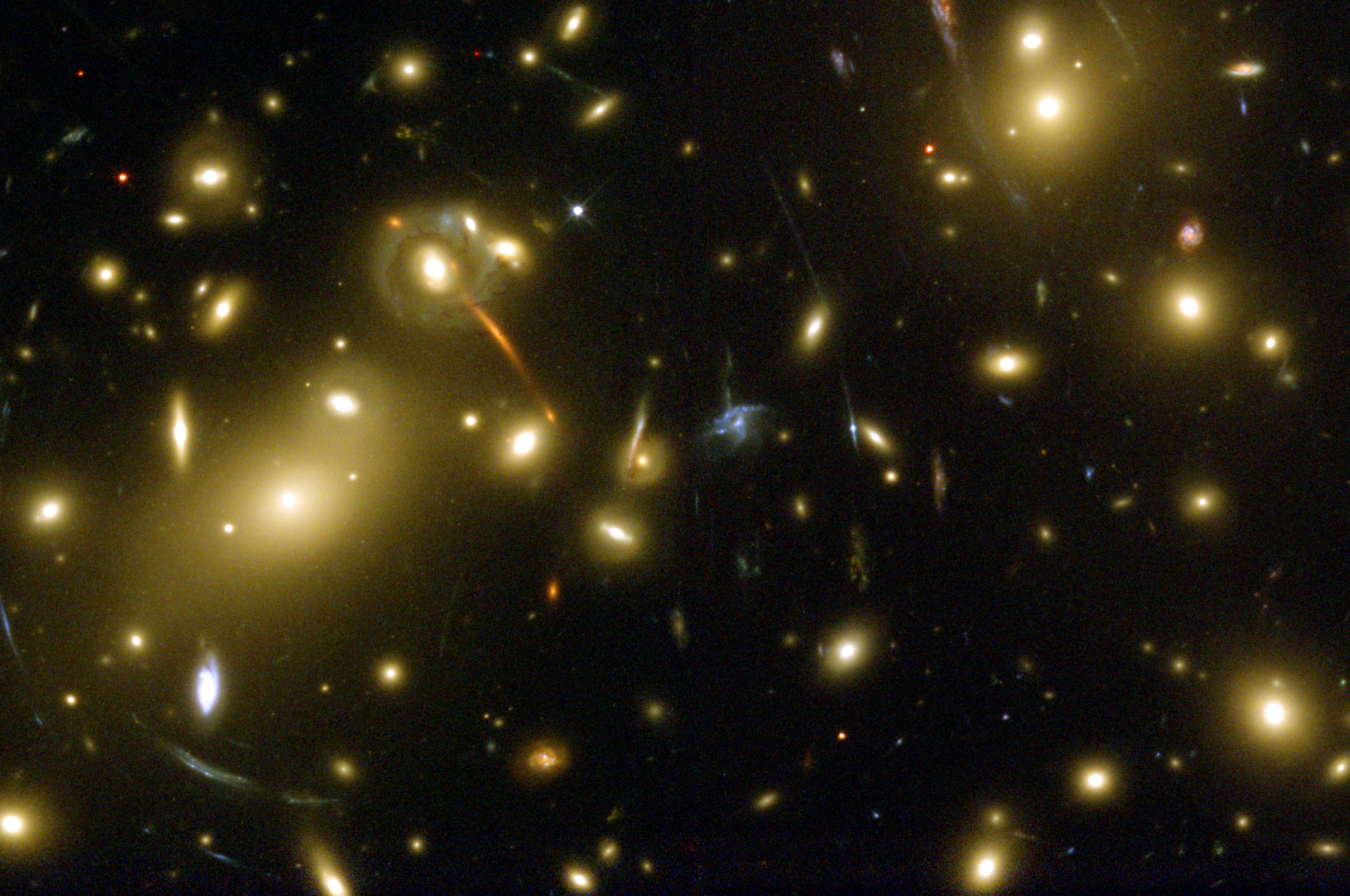 This image shows the full overview of the galaxy cluster Abell 2218 and its gravitational lenses. This image was taken by Hubble in 1999 during the Early Release Observations made immediately after the Hubble Servicing Mission 3A.